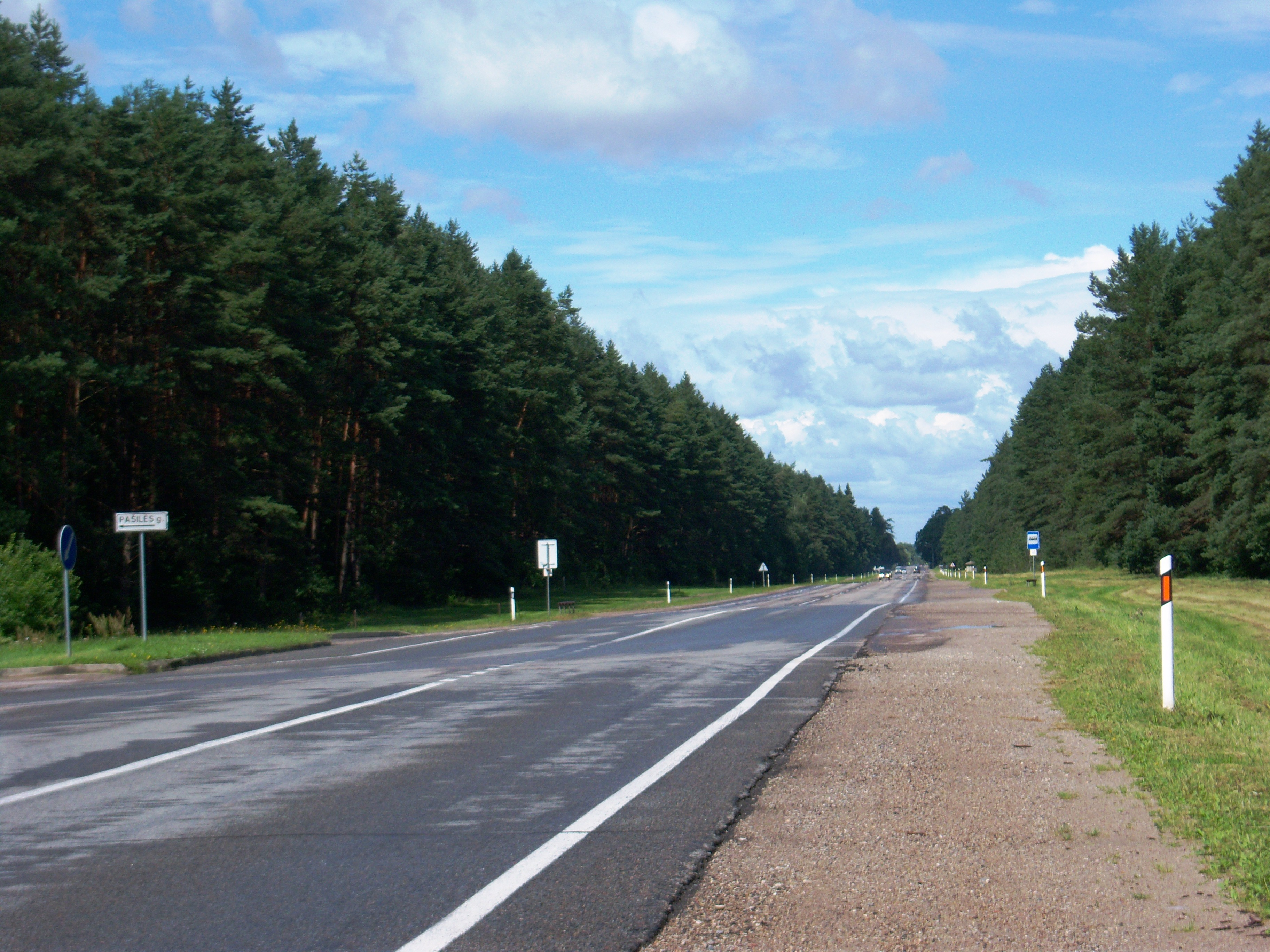 Road 231, by turn to Pašilė, Ukmergė, Lithuania